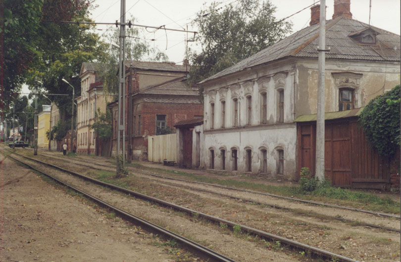 Grazhdanskaya street in Kolomna